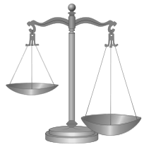 An unfair administrator barnstar